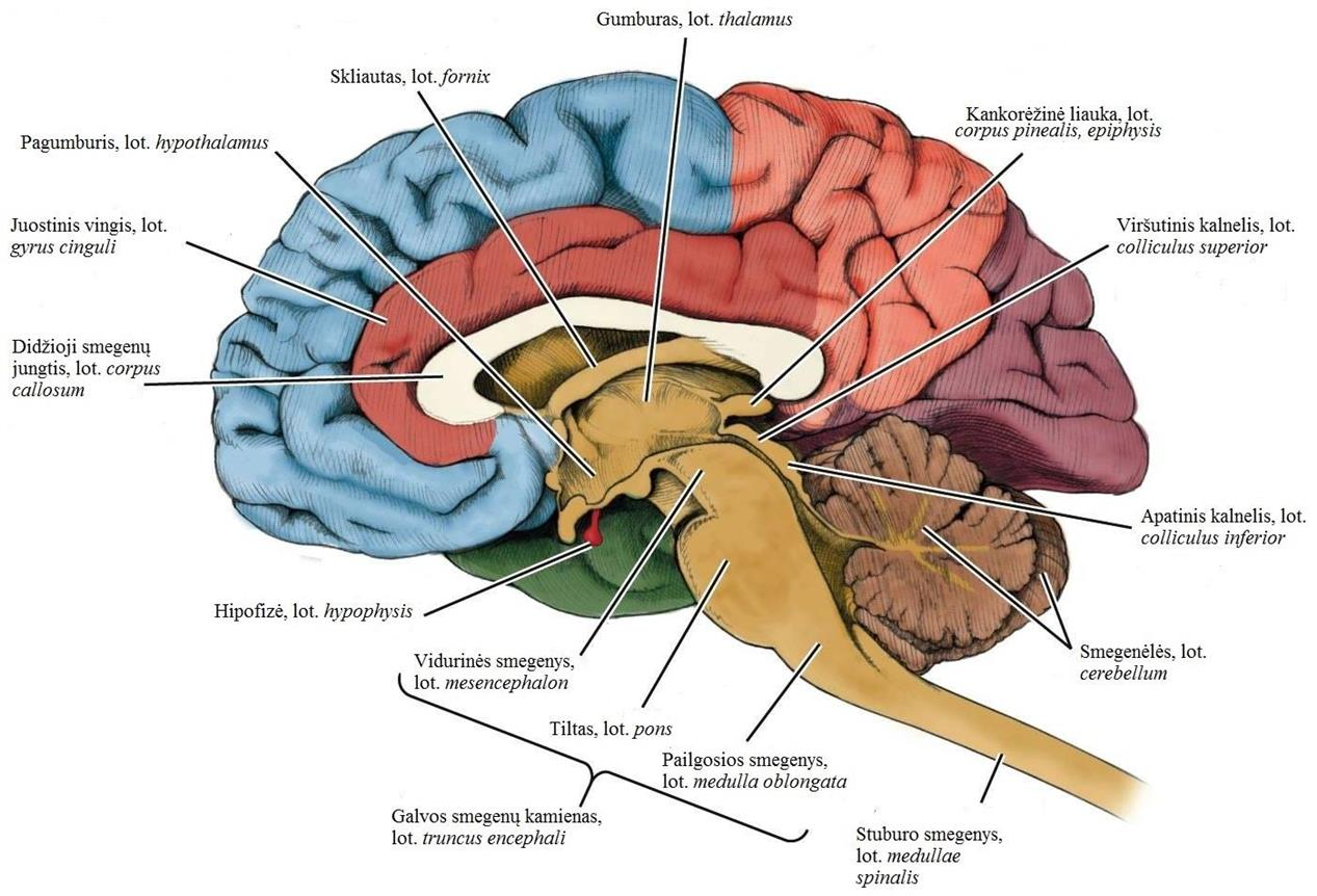 There is a cross-section of the brain where the main parts are visible.